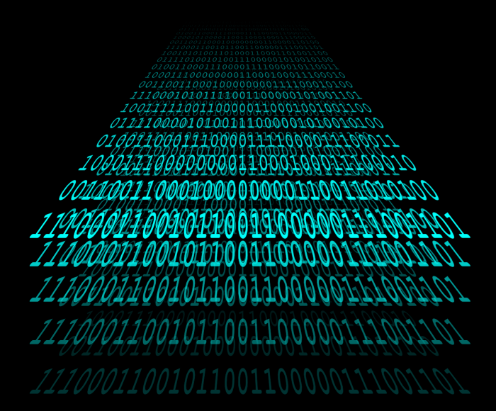 Binary Data